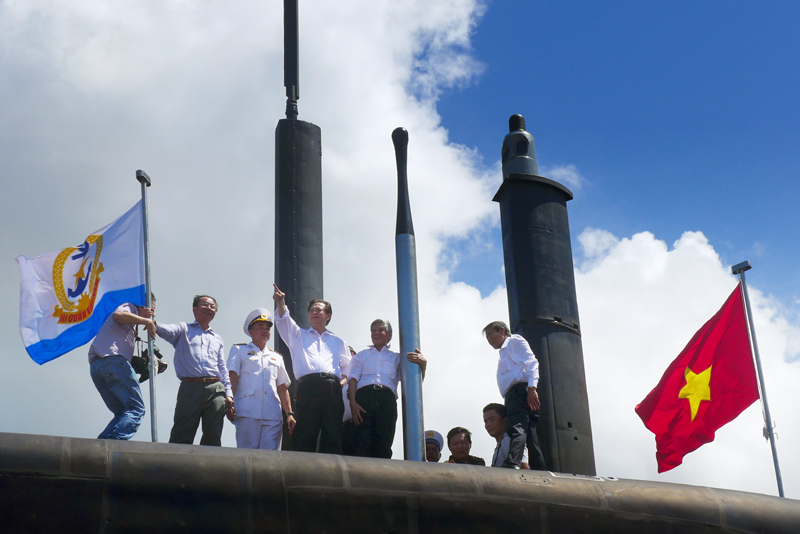 National flag of the Socialist Republic of Vietnam (Cộng hòa Xã hội chủ nghĩa Việt Nam) and ensign of Vietnam People's Navy (Hải quân Nhân dân Việt Nam) waves on the Ho Chi Minh submarine, 3 April 2014.